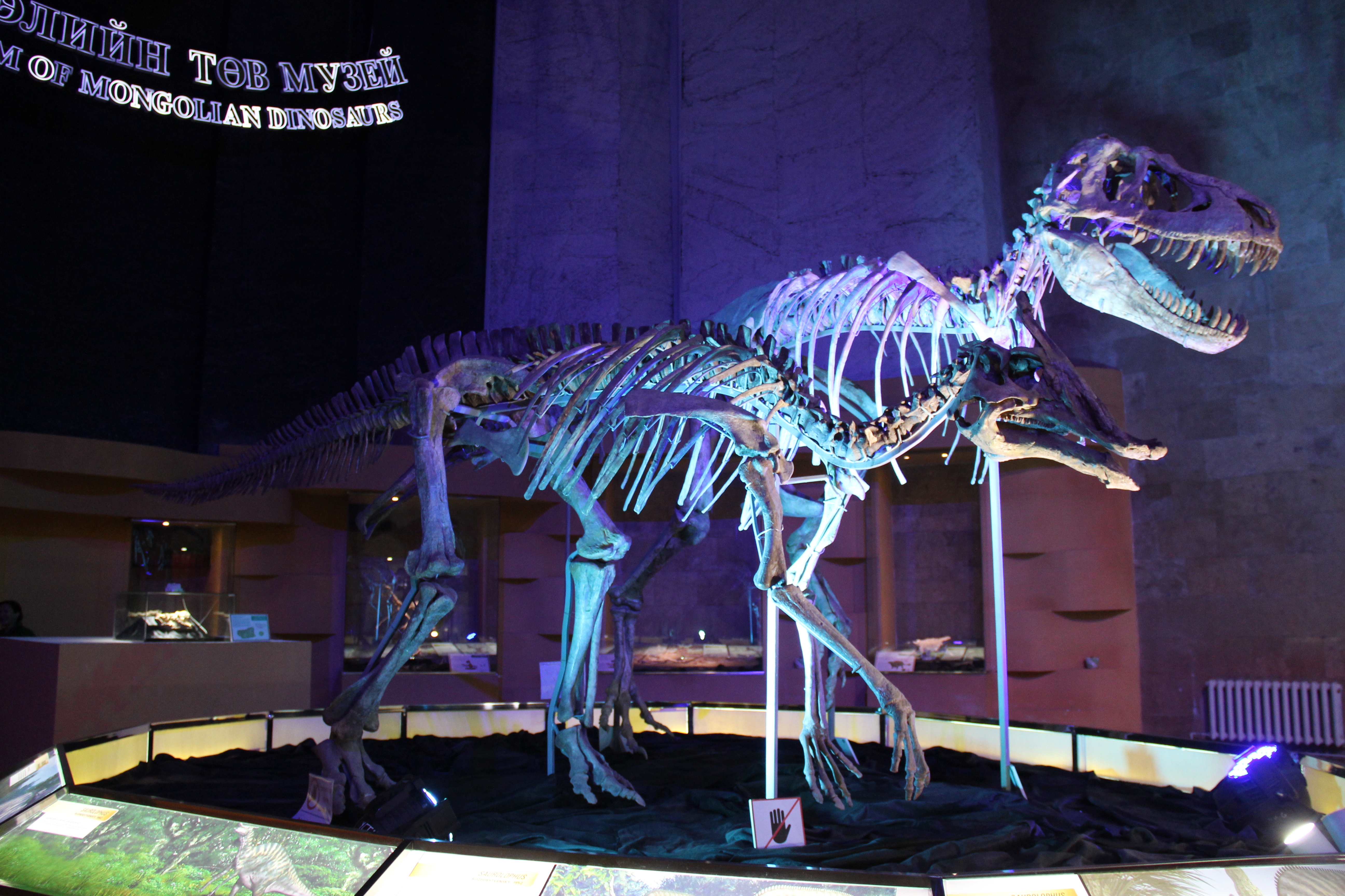 Central Museum of Mongolian Dinosaurs, Ulaanbaatar. Complete indexed photo collection at .